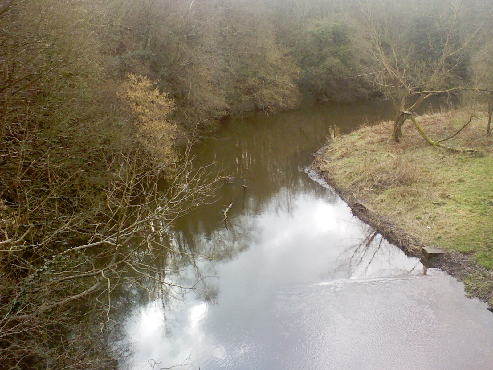 river